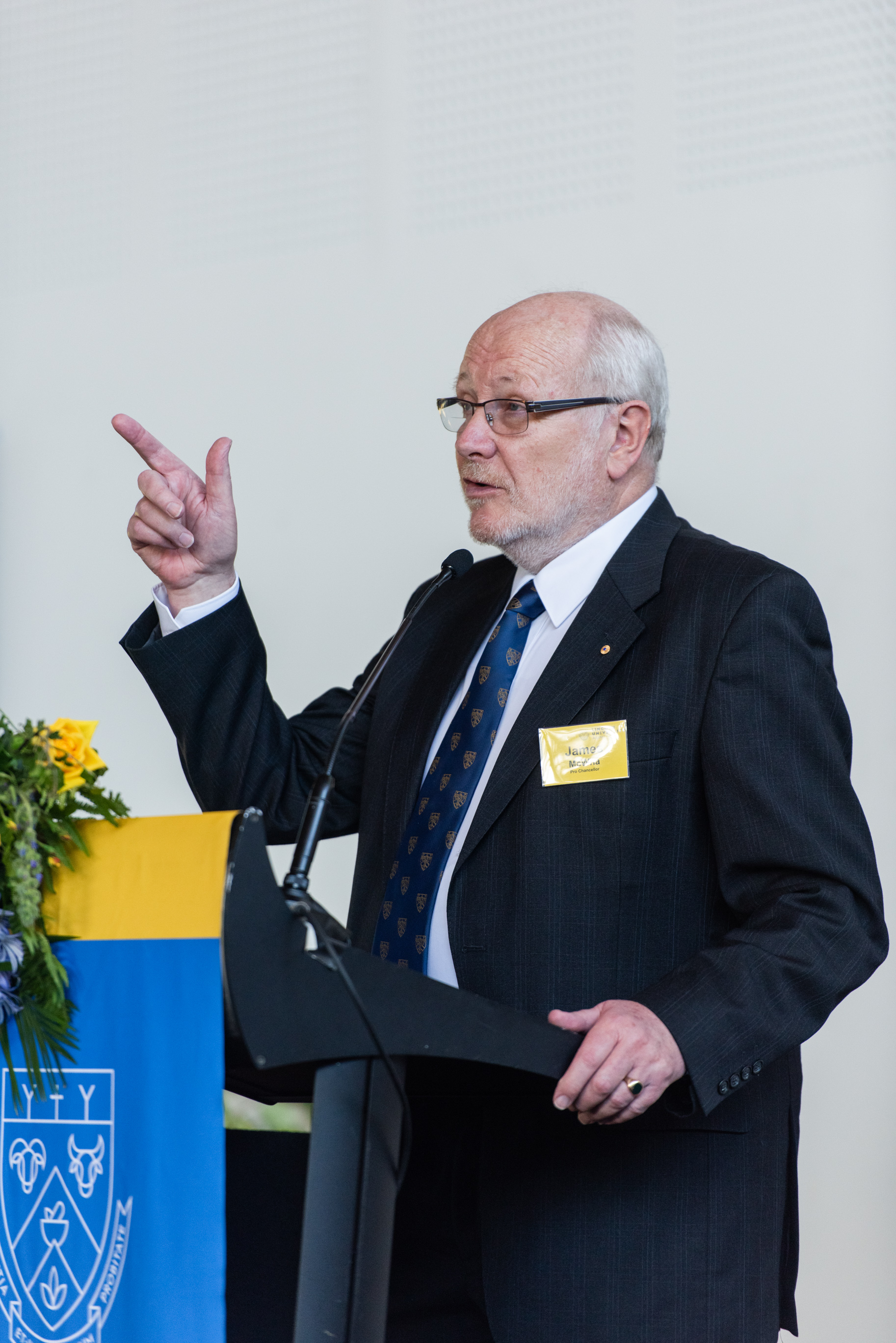 2019 LUSA's 100 Years Anniversary Dinner James McWha